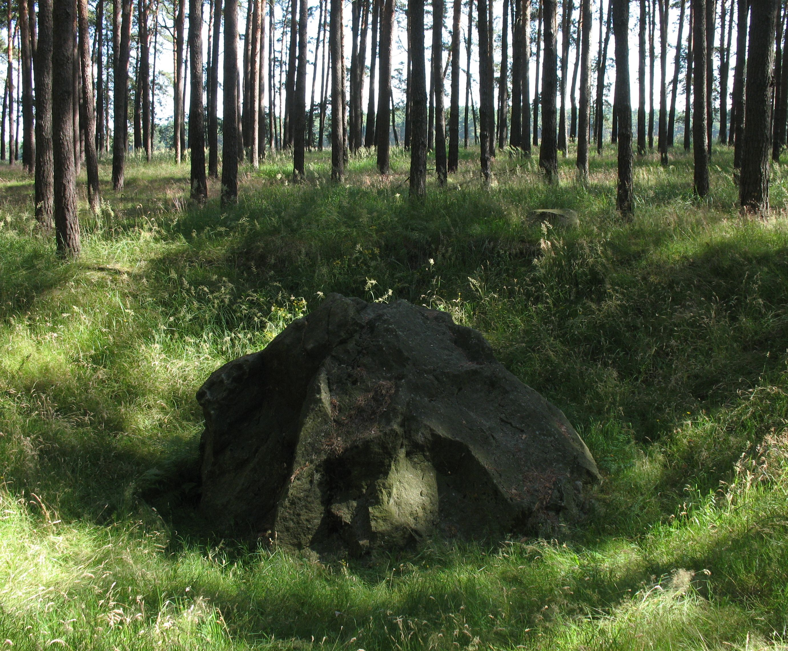 Glacial erratic in Krahne (municipality Kloster Lehnin) in Brandenburg, Germany